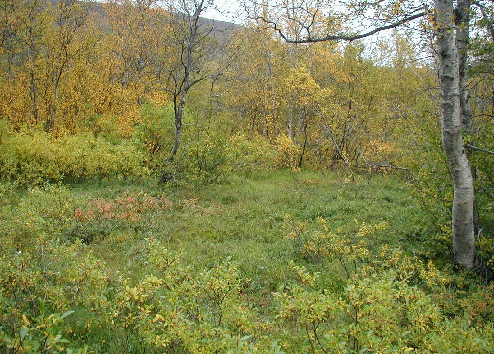 Forest habitat in Iceland